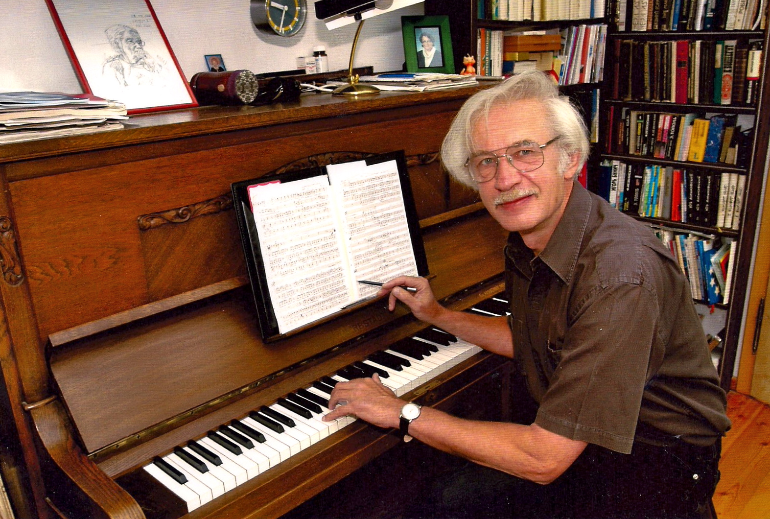 Nikolai Dranitsyn